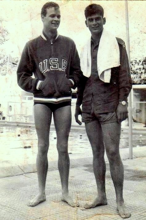 Israeli swimming champion David Weissmann standing next to Jeff Farrell (Felix Jeffrey Farrell), American competition swimmer and Olympic champion (1960 Summer Olympics). Taken at Galei Gil swimming pool, Ramat Gan, Israel by Nachum Buch, Israel's Swimming Team Coach